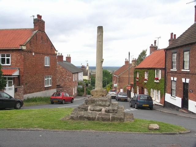 Base and shaft of stone cross at the junction of Cross Hill and High Street, Gringley-on-the-Hill, Nottinghamshire, seen from the south. The cross was restored for the Millennium. A plaque on the steps of the cross states that a market charter was granted to the village on 2 November 1252.